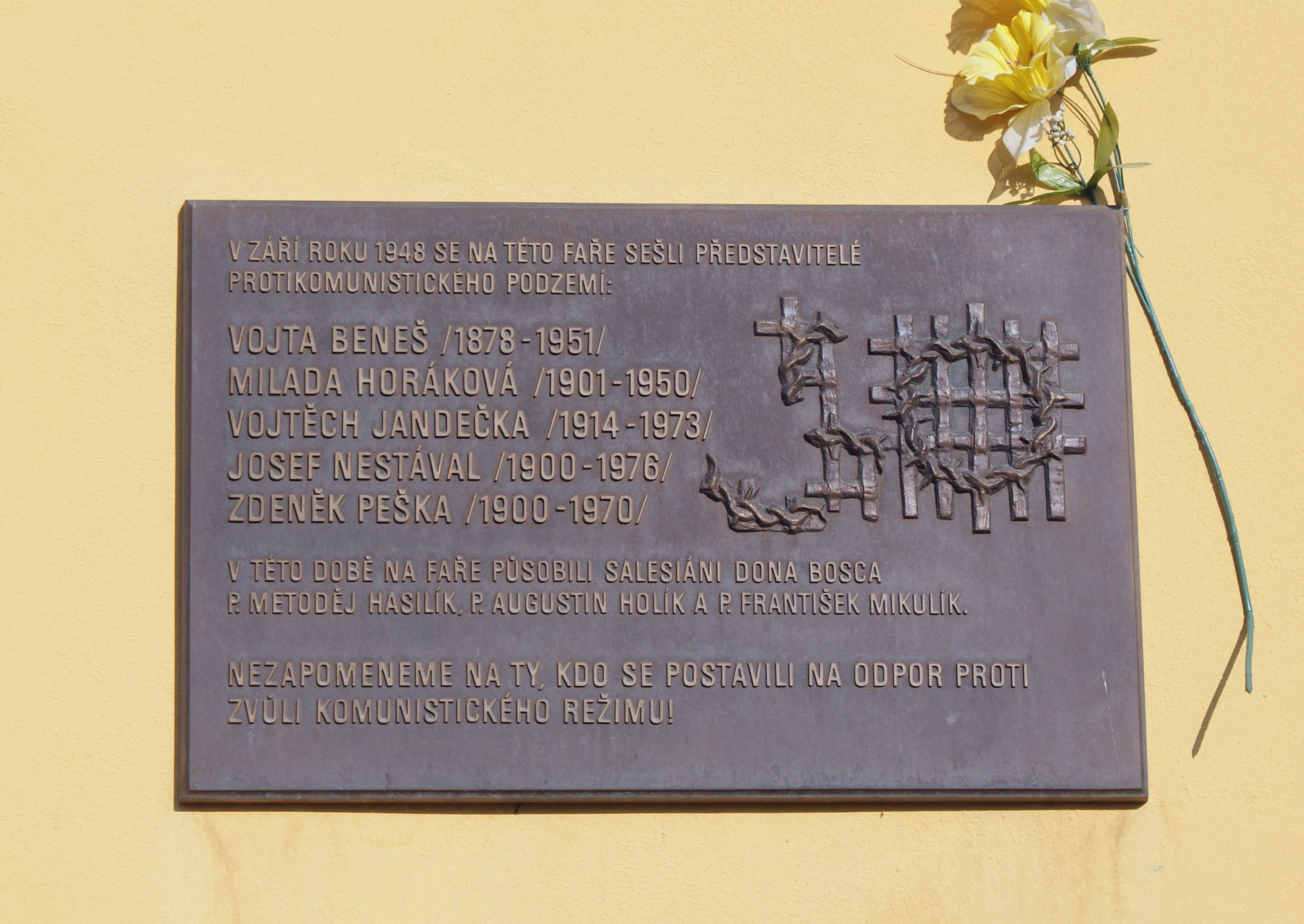 Communist regime victims memorial plate on the Vinoř rectory wall, Vinoř, Prague.